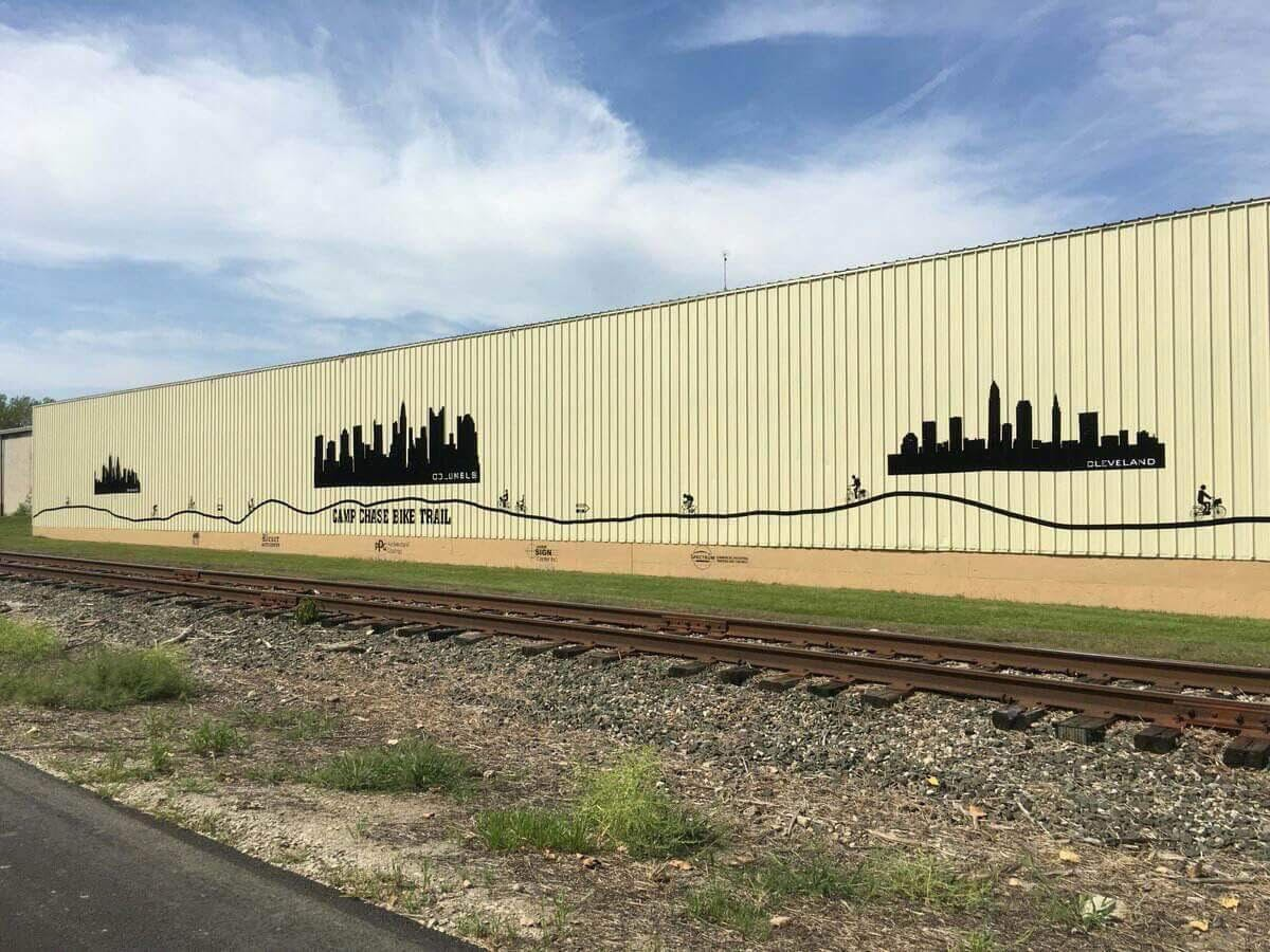 The Ohio to Erie Trail Mural, Artist: Sue Killilea, along the Camp Chase Trail on the Hilltop (600 feet east of N. Sylvan Ave). Created 2016